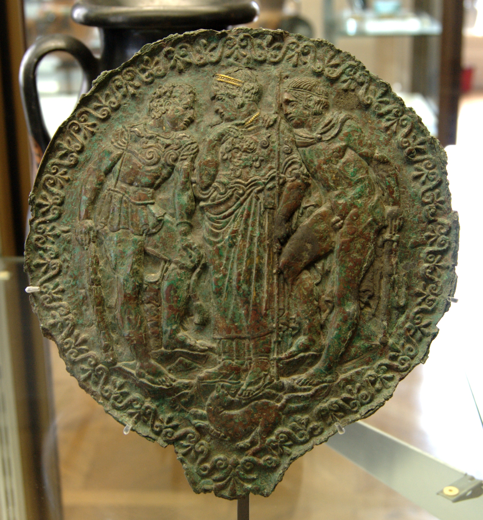 Minerva between Heracles and Iolaus. Etruscan relief mirror, bronze, gold and silver incrustations, 350–325 BC.